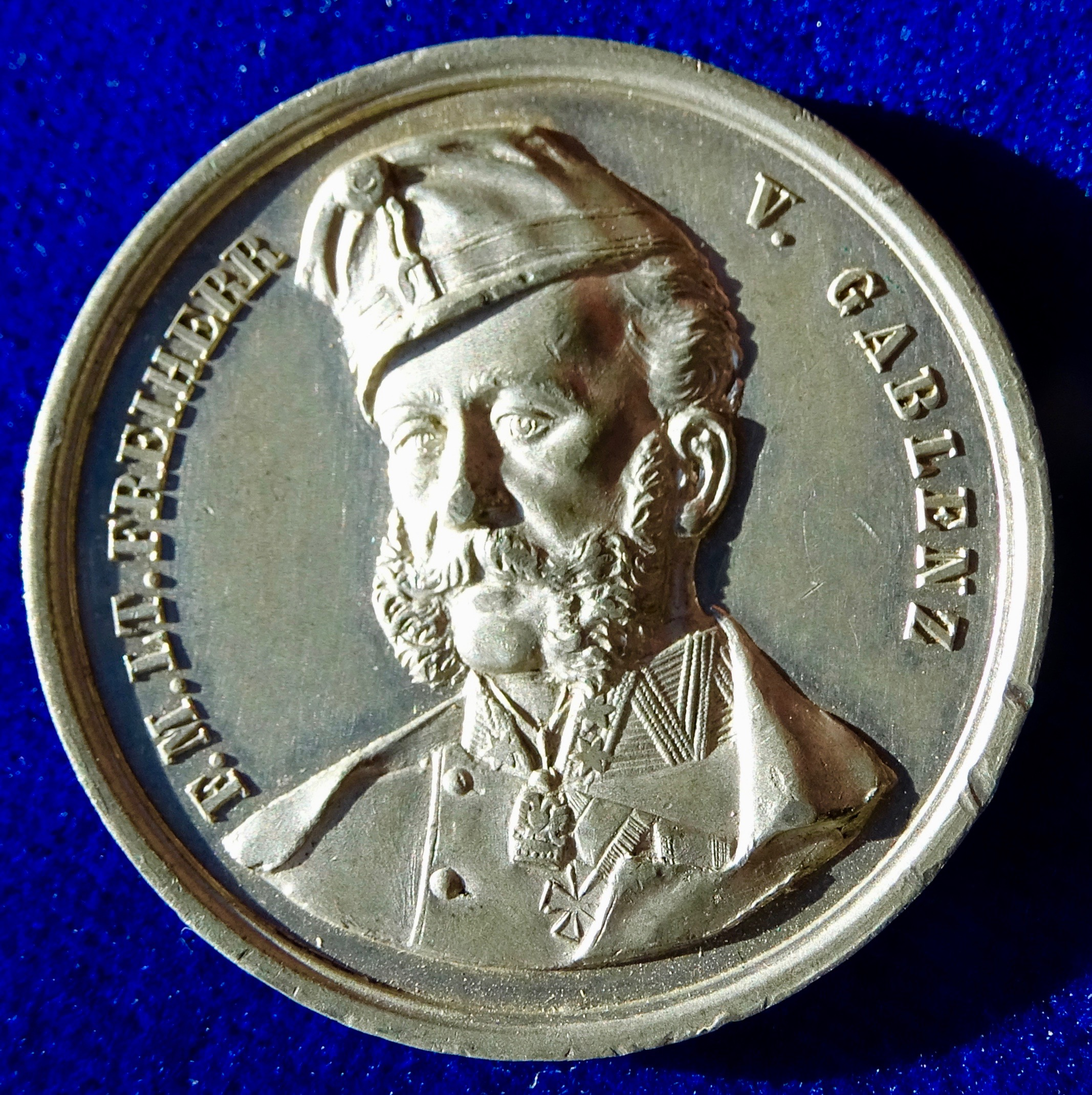 Austrian Medal 1864 (ND), Gablenz's return to Vienna after the Second Schleswig War. Pewter d. = 36 mm. Ludwig Karl Wilhelm Freiherr von Gablenz, Austrian general of German origin, 1814 Jena, Thuringia – 1874 Zürich, Switzerland and Archduke Charles, Duke of Teschen, 1771 Florence, Grand Duchy of Tuscany - 1847 Vienna, Austrian Empire Around uniformed portrait l.: "F.M. LT. FREIHERR V. GABLENZ"/ Archduke Charles on horseback l., 2 lines curved above: "ZUR RÜCKKEHR DER K.K. TRUPPEN ERZHERZOG CARL BEI ASPERN". Wurzbach 3035; Lange -. The Aspern Bridge in Vienna was opened on 30 November 1964 for the return of the Austrian army from Schleswig-Holstein under General Gablenz. Condition: UNCIRCULATED